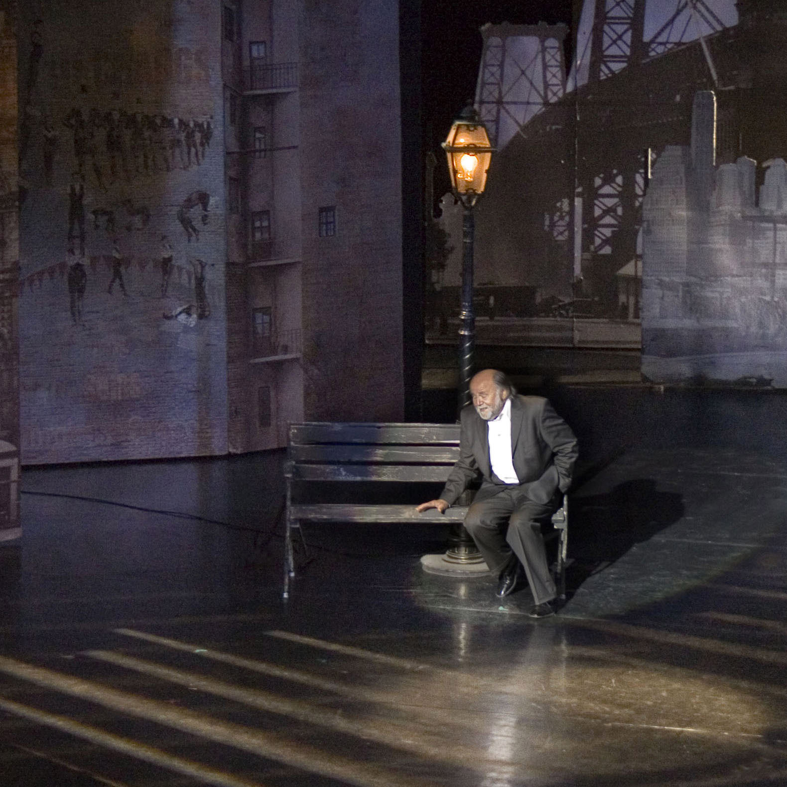 Haumann Péter hungarian actor The POSZT Gala's show 2009.